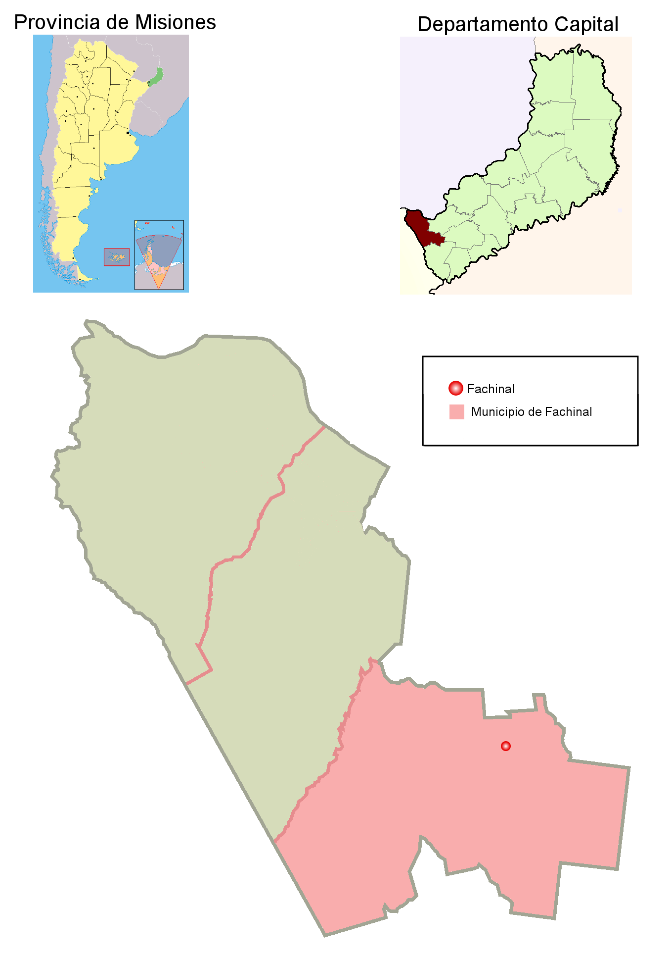 A map showing municipio of Fachinal in Capital departament, Misiones province, Argentina. Also shows Fachinal town location. Created with GIMP.